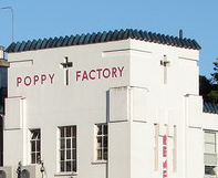 The Poppy Factory in Richmond, London, UK.